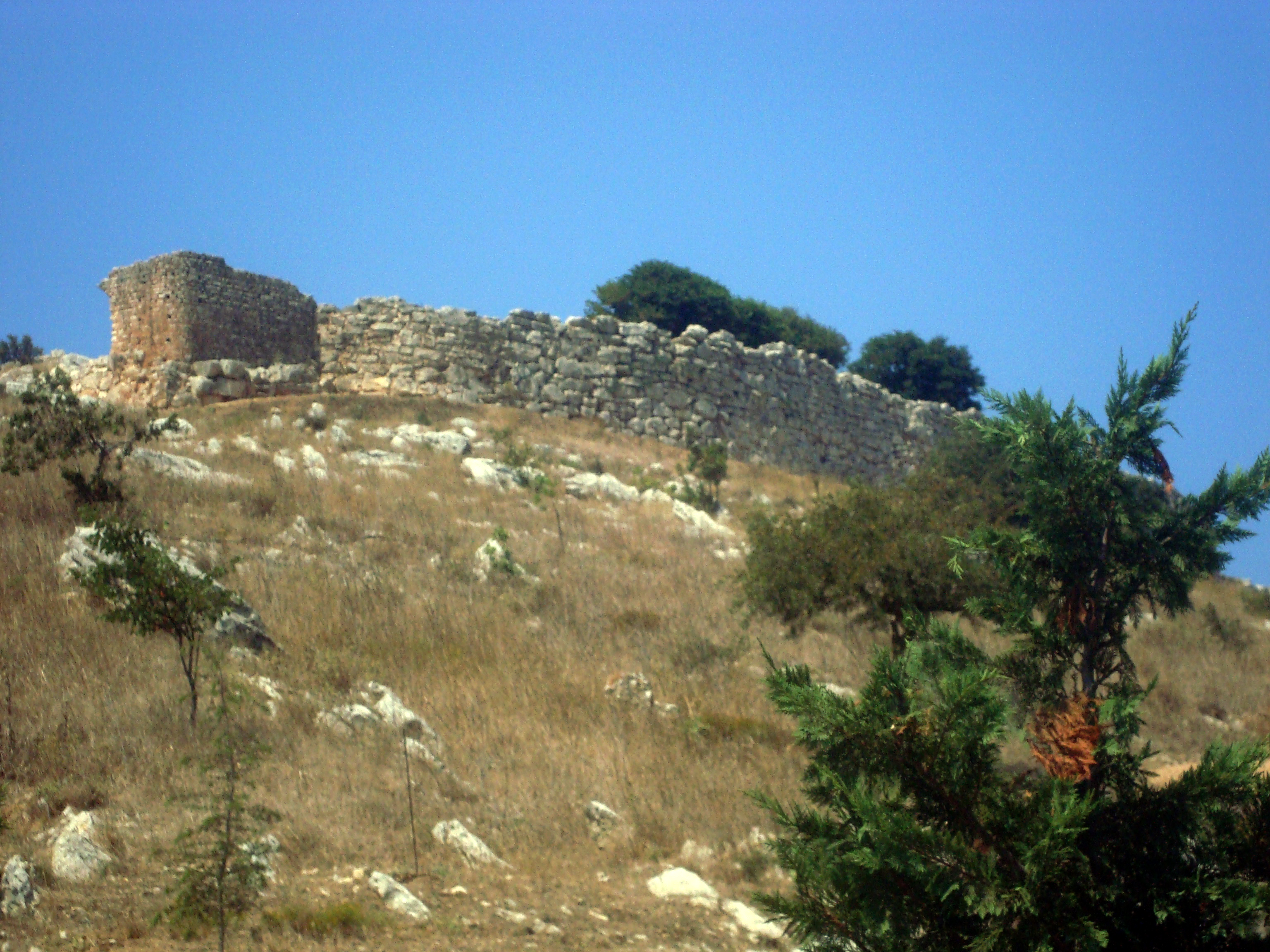 Mykinean Acropole , Araxos Village Achaia